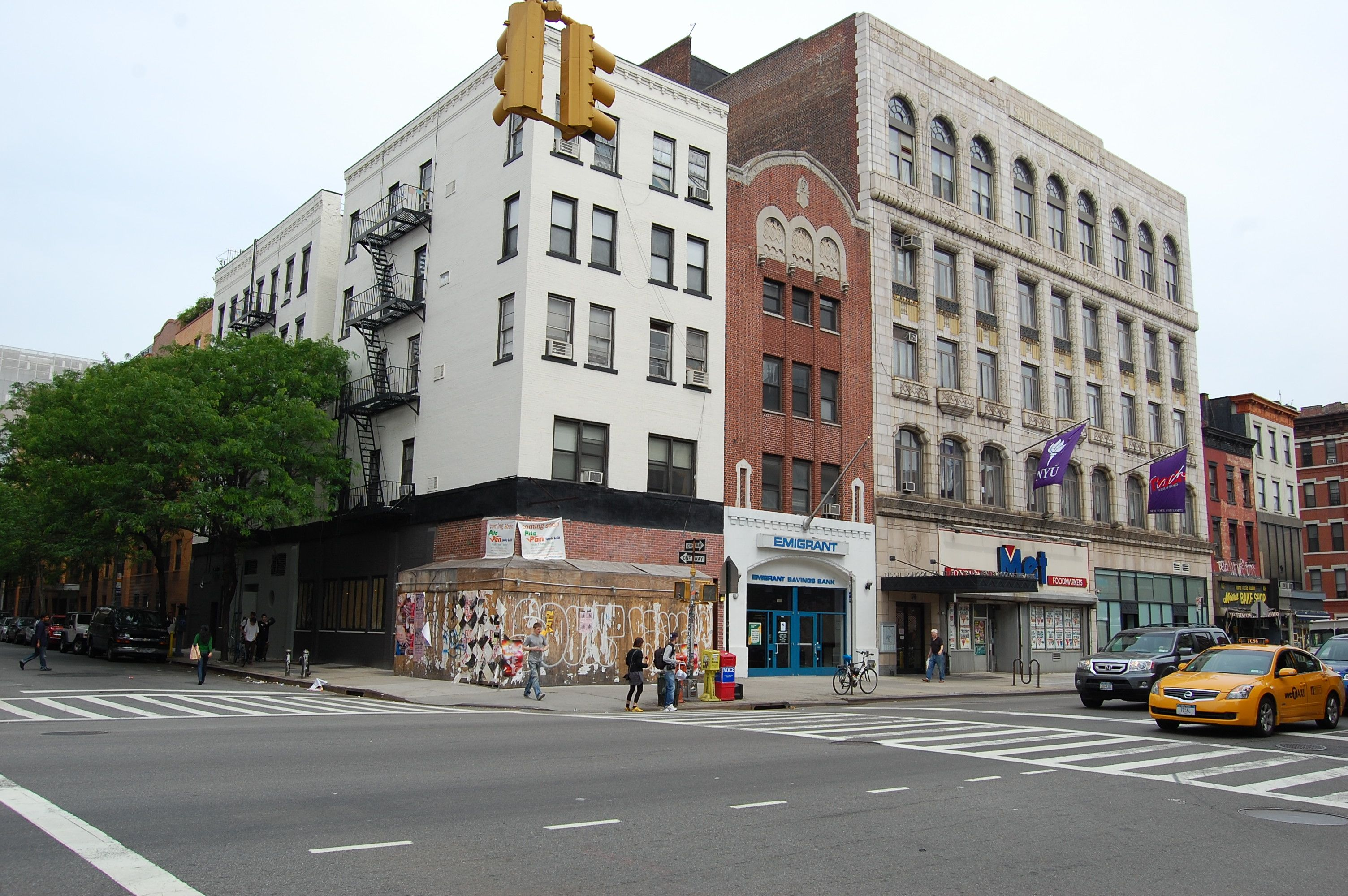 The former Fillmore East rock club, now an Emigrant Savings Bank. (My apologies for the traffic signal!)